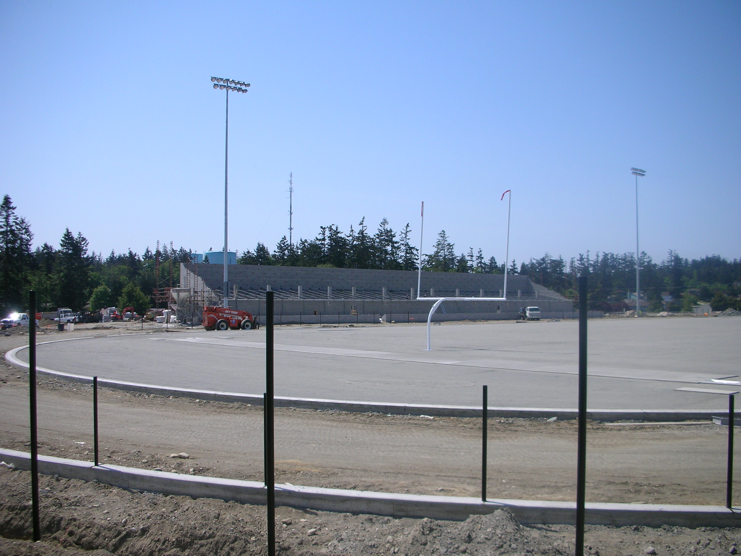 The Wildcat Memorial Stadium in Oak Harbor, Washington under construction in early May, 2007.